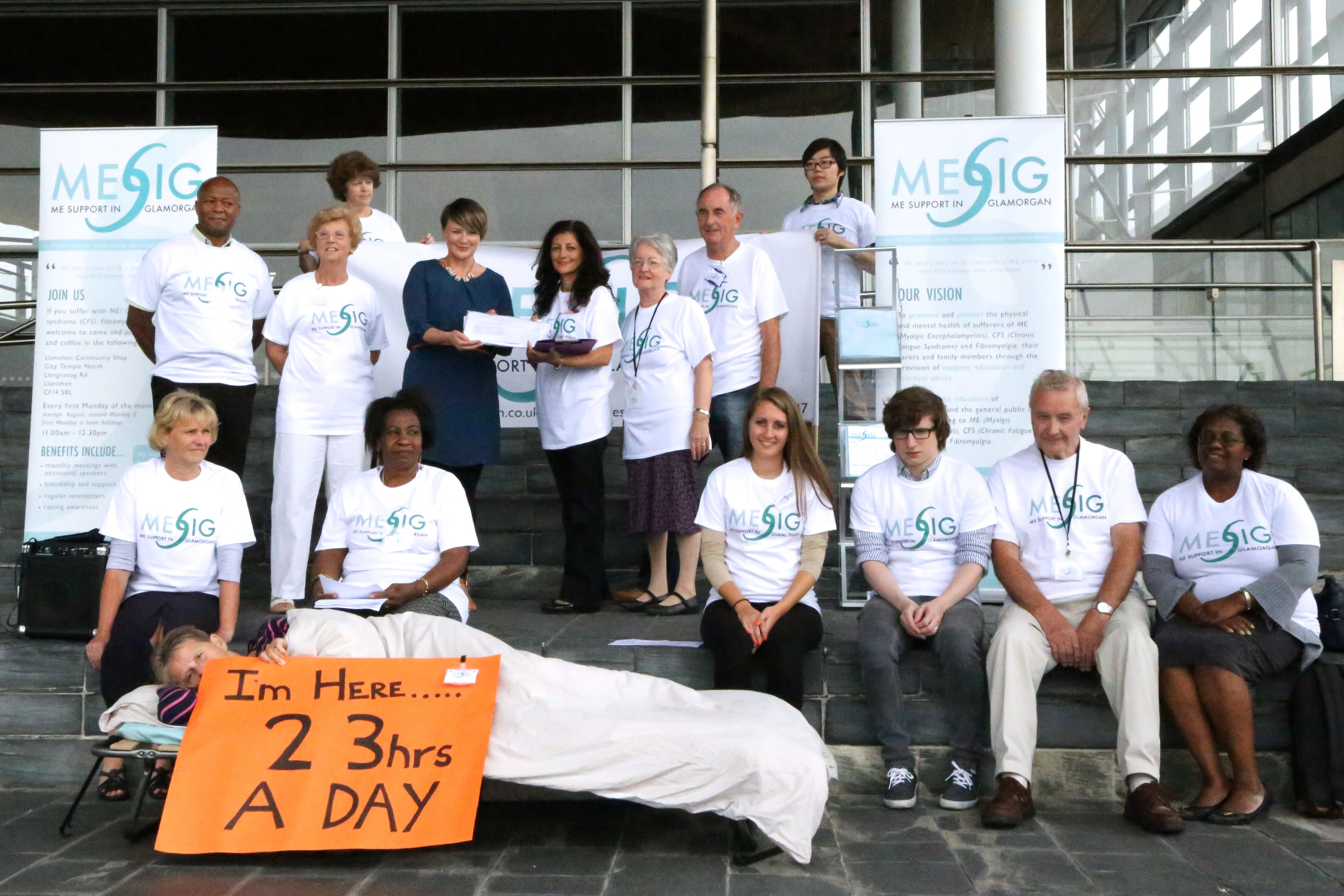 Presentation of petition 'A Dedicated Support Team for Myalgic Encephalomyelitis (M.E.),Chronic Fatigue Syndrome & Fibromyalgia Sufferers in South East Wales' to the National Assembly for Wales